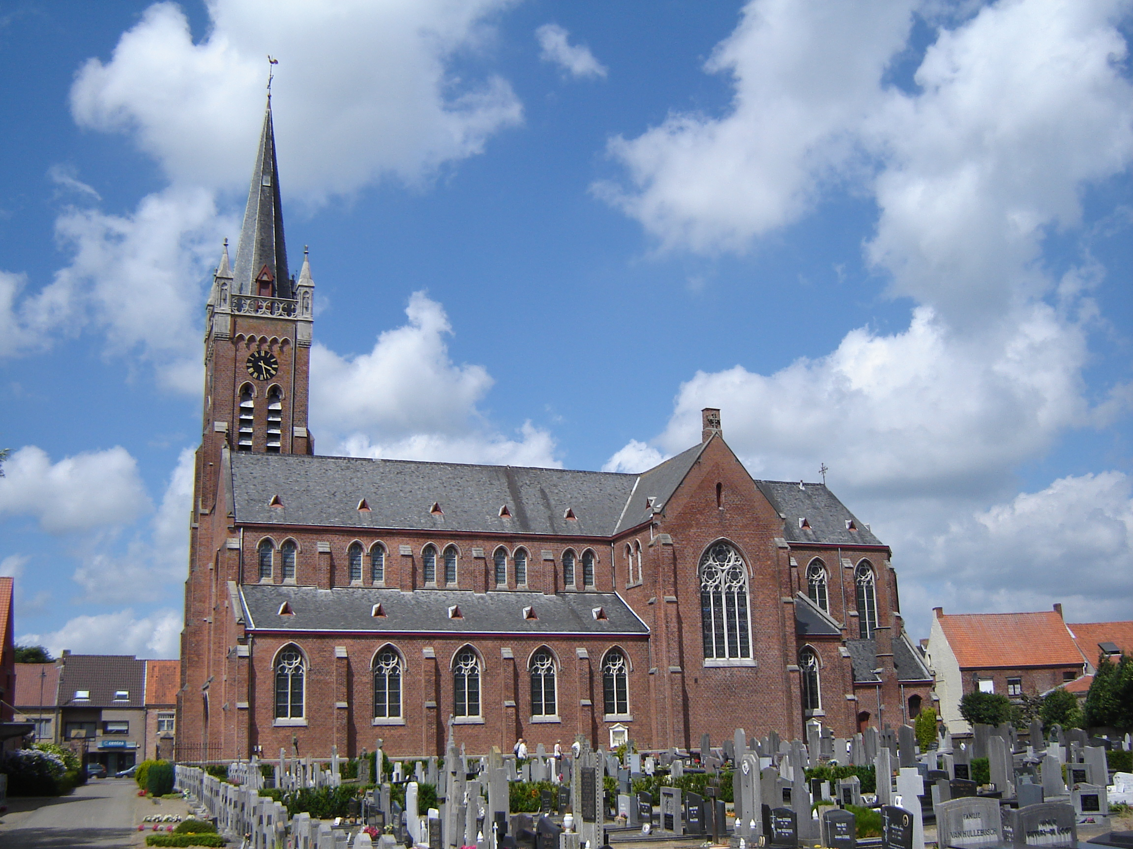 Church of Saint Martin in Sijsele. Sijsele, Damme, West Flanders, Belgium